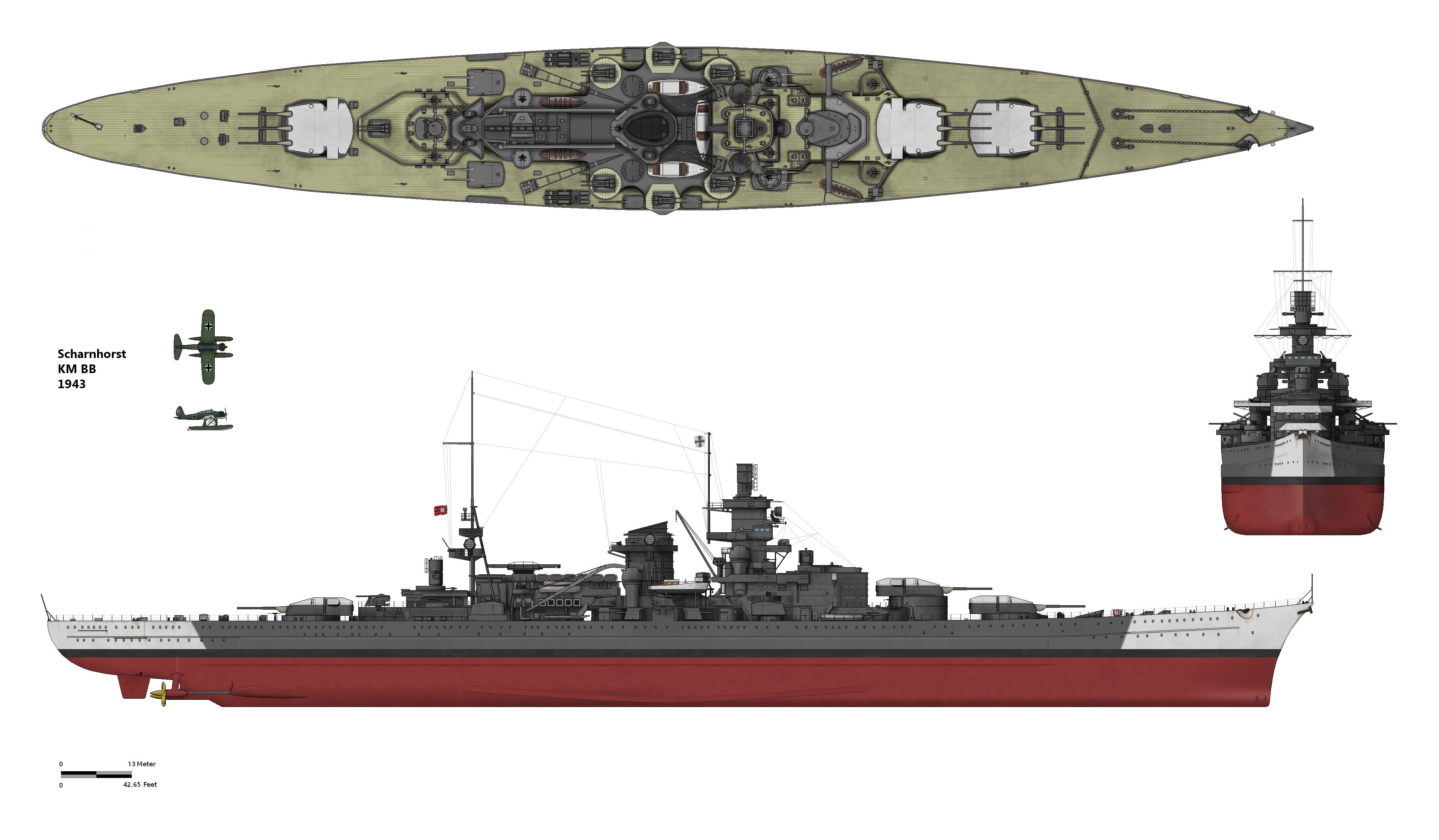 Drawing of the German warship Scharnhorst in her final configuration in December 1943. Camouflage as seen on photographs prior to Operation Zitronella (a.k.a. Operation Sizilien) in september 1943.